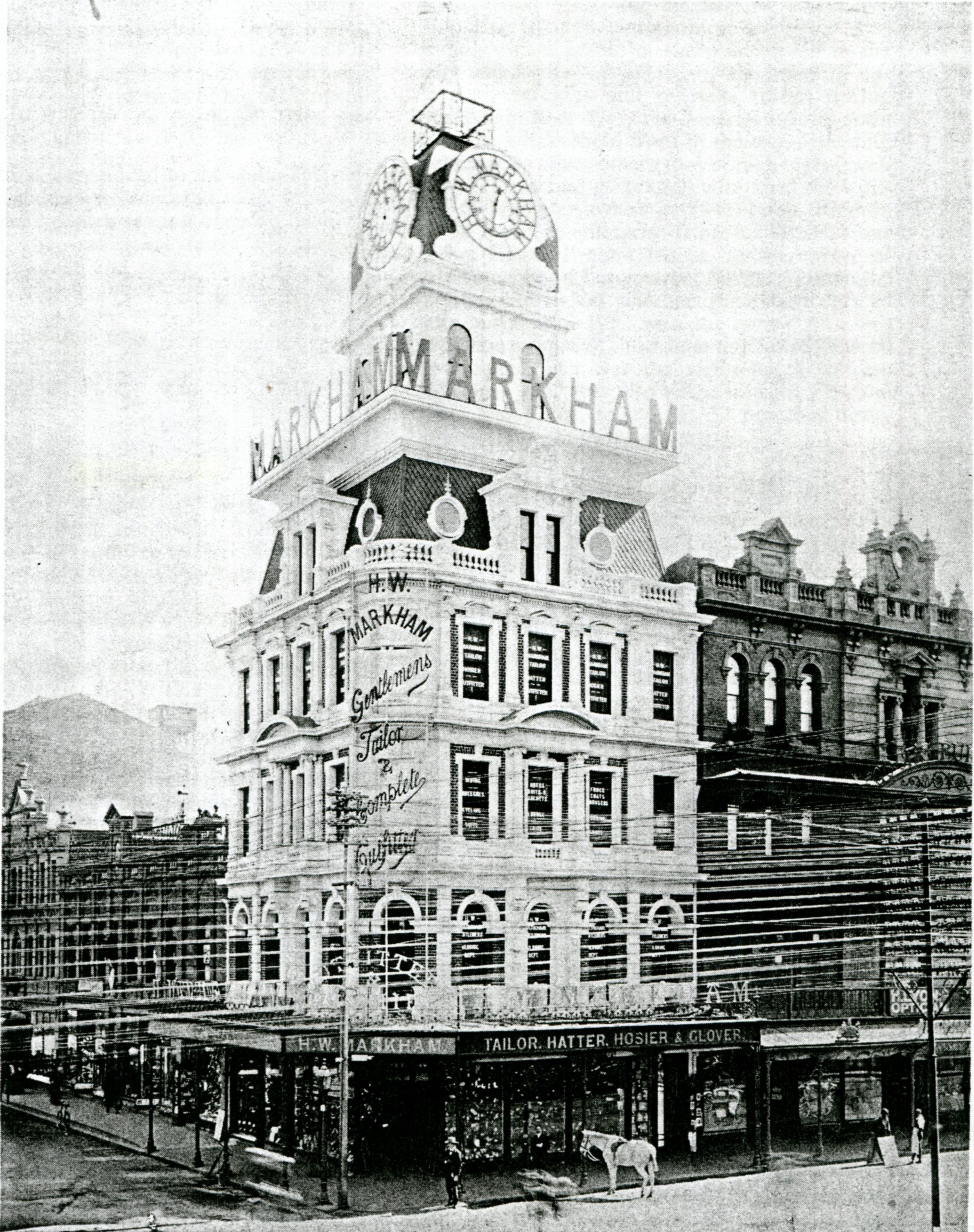 The Markham's building in the city of Johannesburg cnr President & Eloff str. This is part of the collaboration between the Joburgpedia project and the Johannesburg Heritage Foundation. This picture was taken in 1897 soon after the completion of the building.